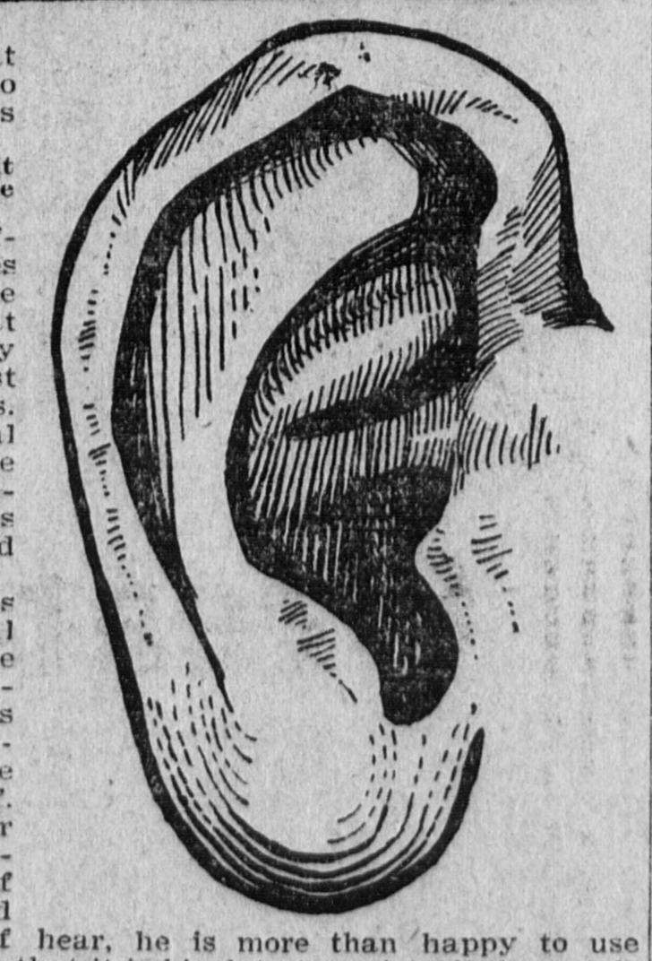 this sketch of a human ear appeared in a 1905 advertisement for hearing aids.